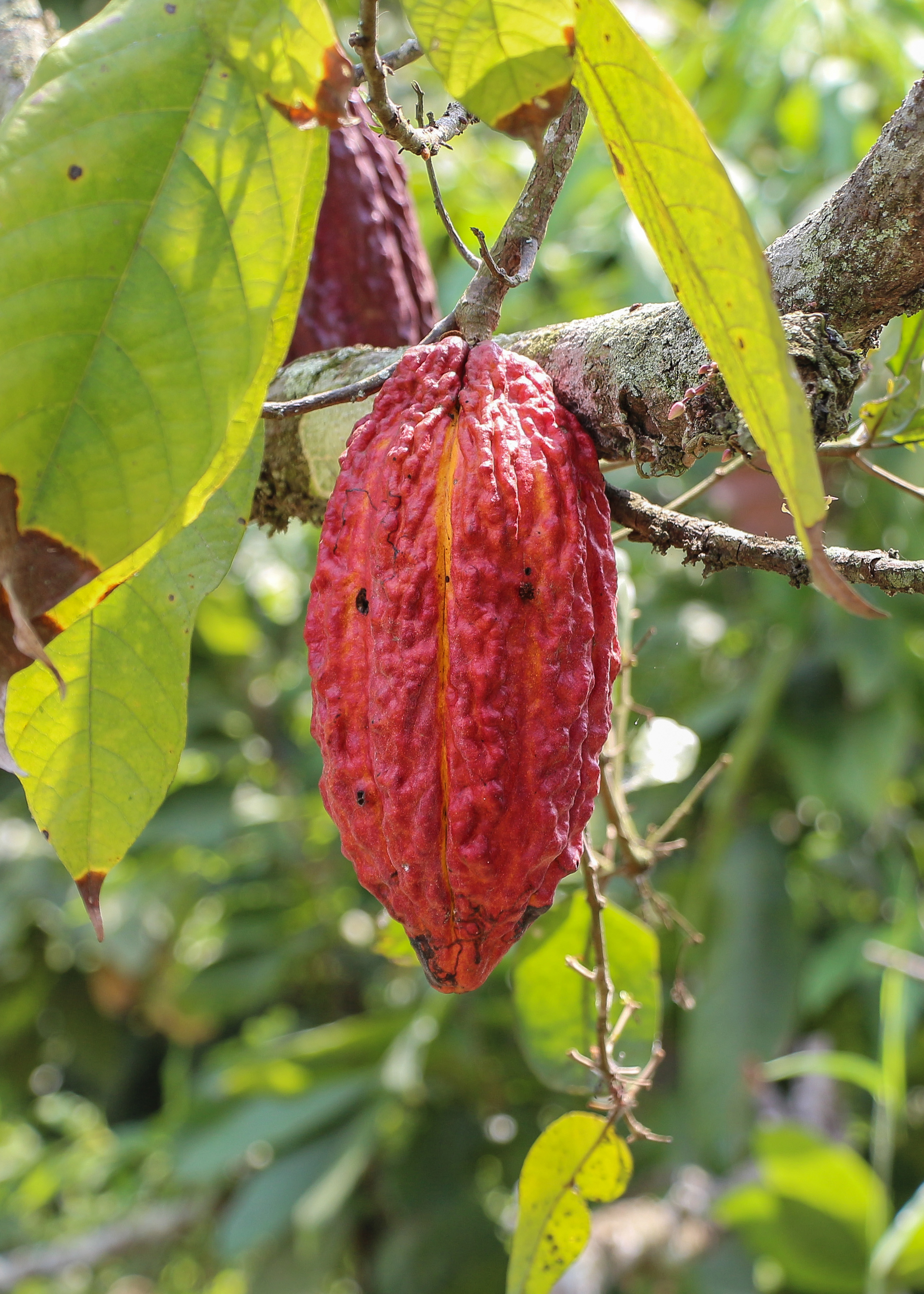 Theobroma cacao fruit, Ecuador